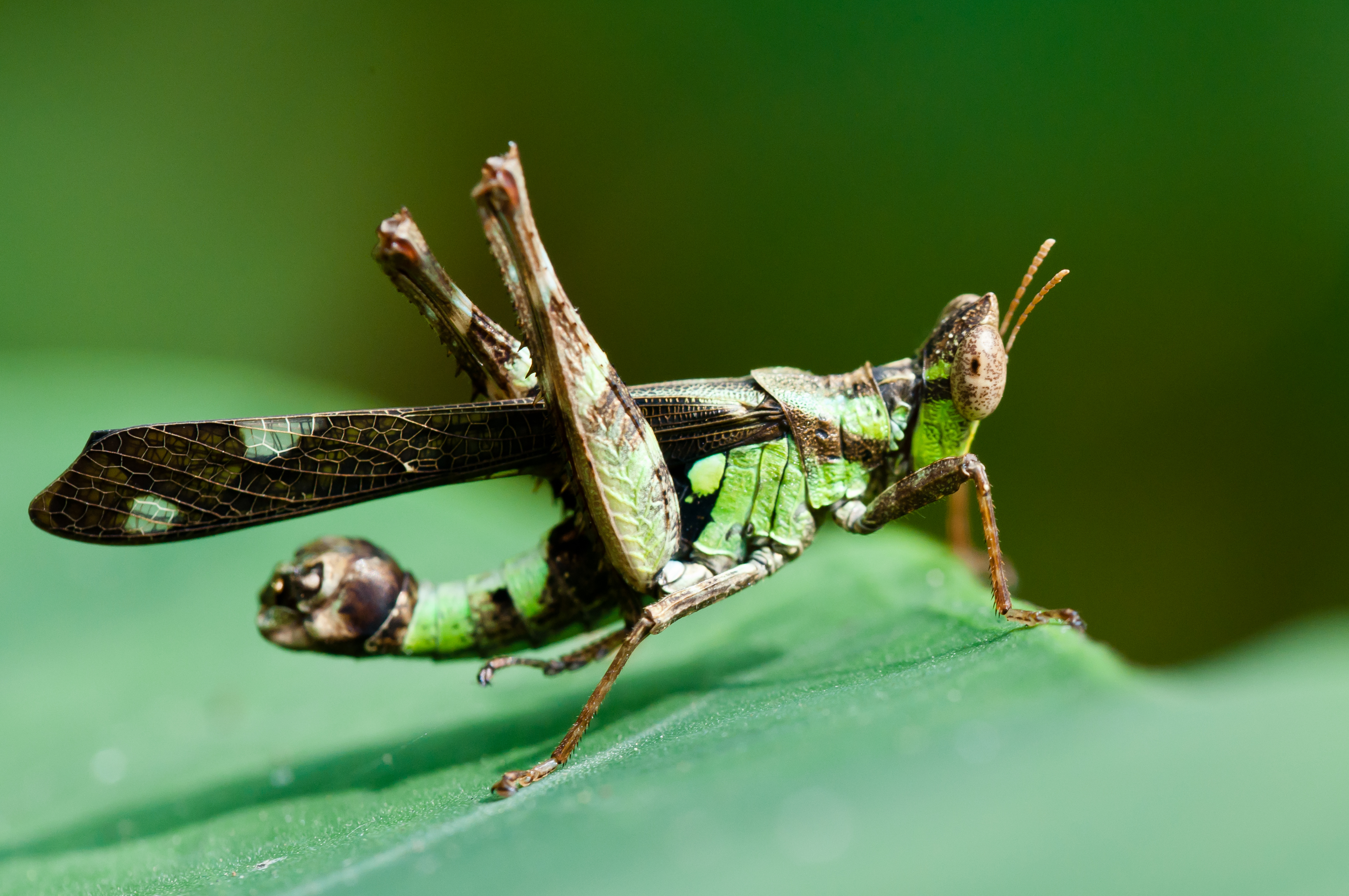 Erianthus versicolor, Spot monkey grasshopper Kaeng Krachan National Park, Thailand Photo by Rushenb